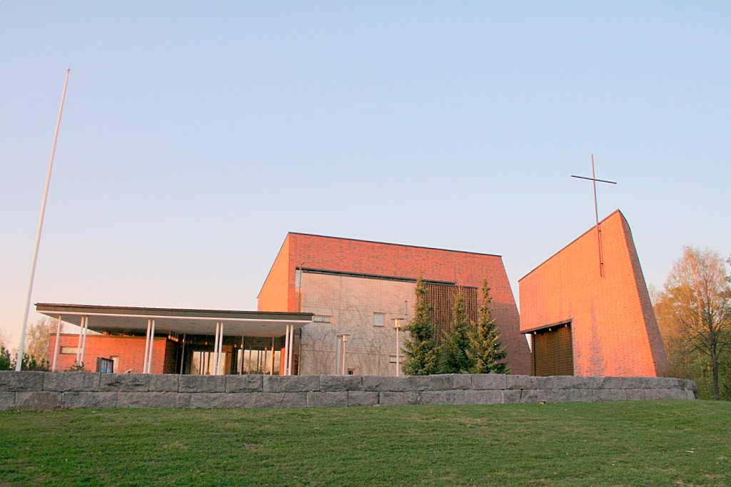 Mukkula church in Mukkula, Lahti, Finland